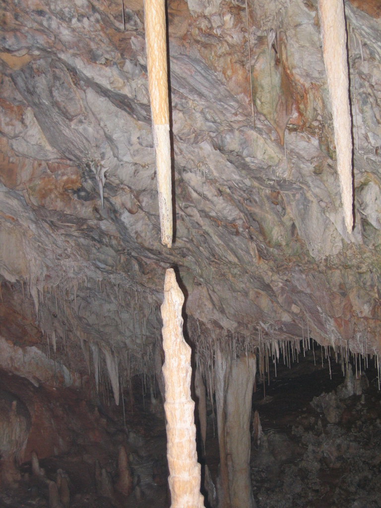 Stalactite in Grotte de Soreq, israel photo by yair talmor, 2006